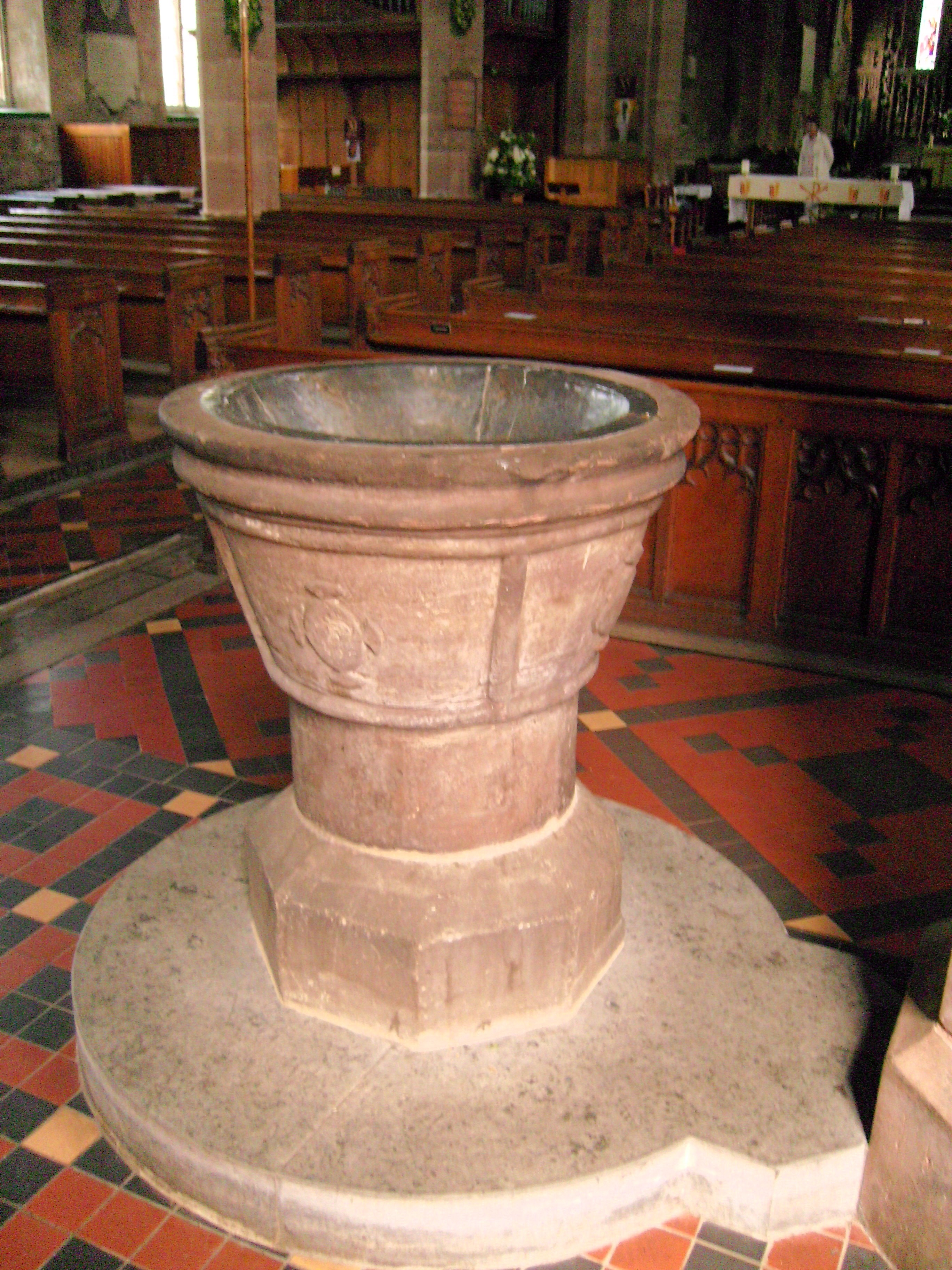 Old font in parish church, St Mary and St Chad, Brewood, Staffordshire. Thought to be 16th century, it was thrown out in the 18th century and used in a garden until recovered and reinstalled in the 20th century.